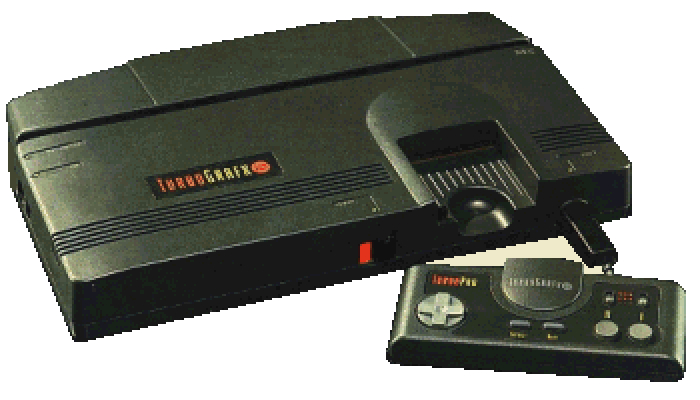 TurboGrafx-16 Console